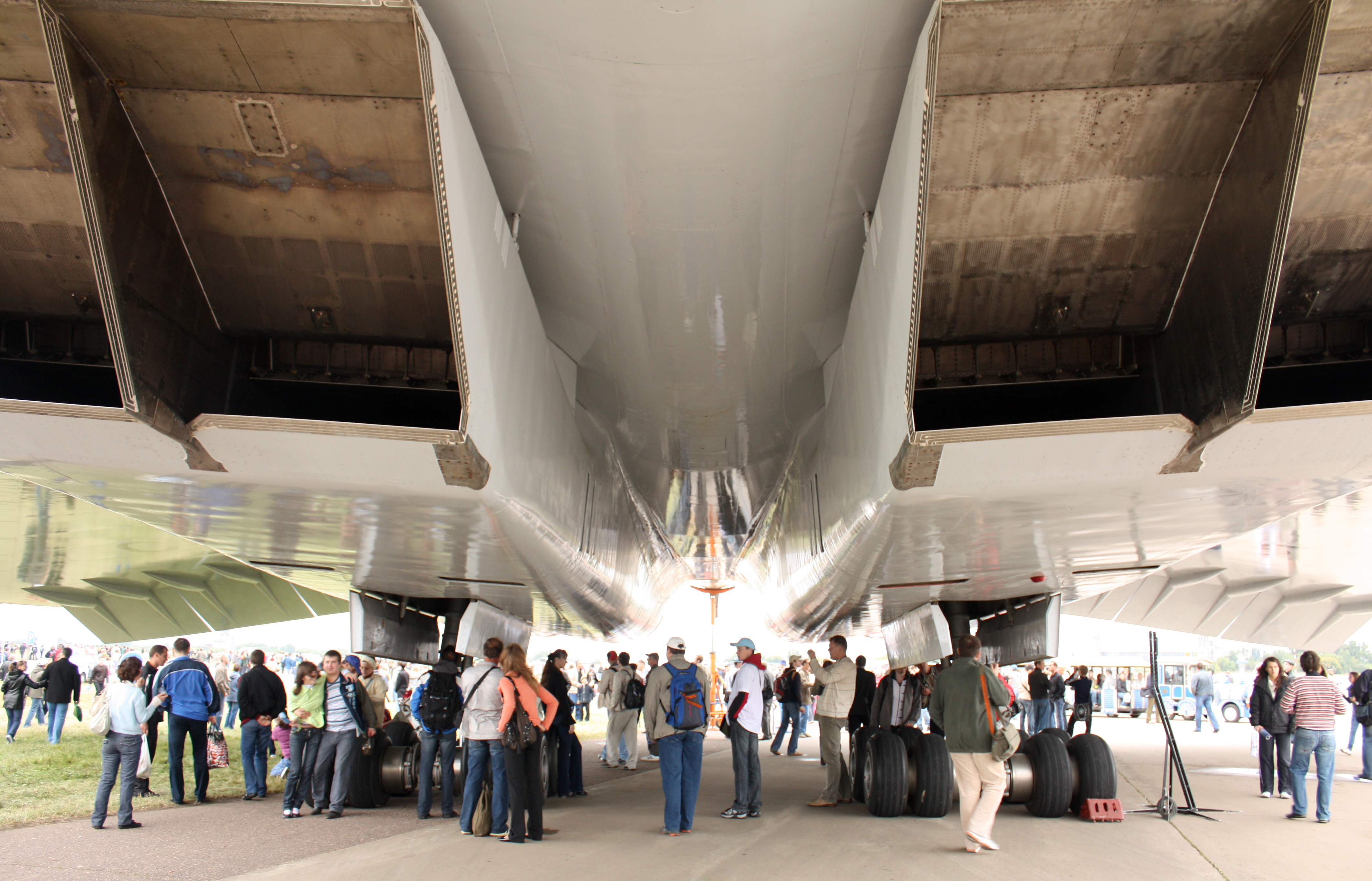 Tupolev Ту-144, a board number 77115. The view from the forward chassis back (The international aerospace salon MAKS-2009)